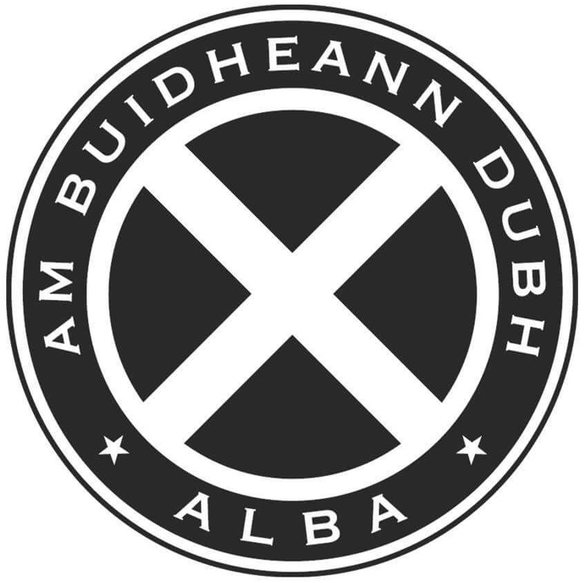 Updated logotype of the Group known as Am Buidheann Dubh.